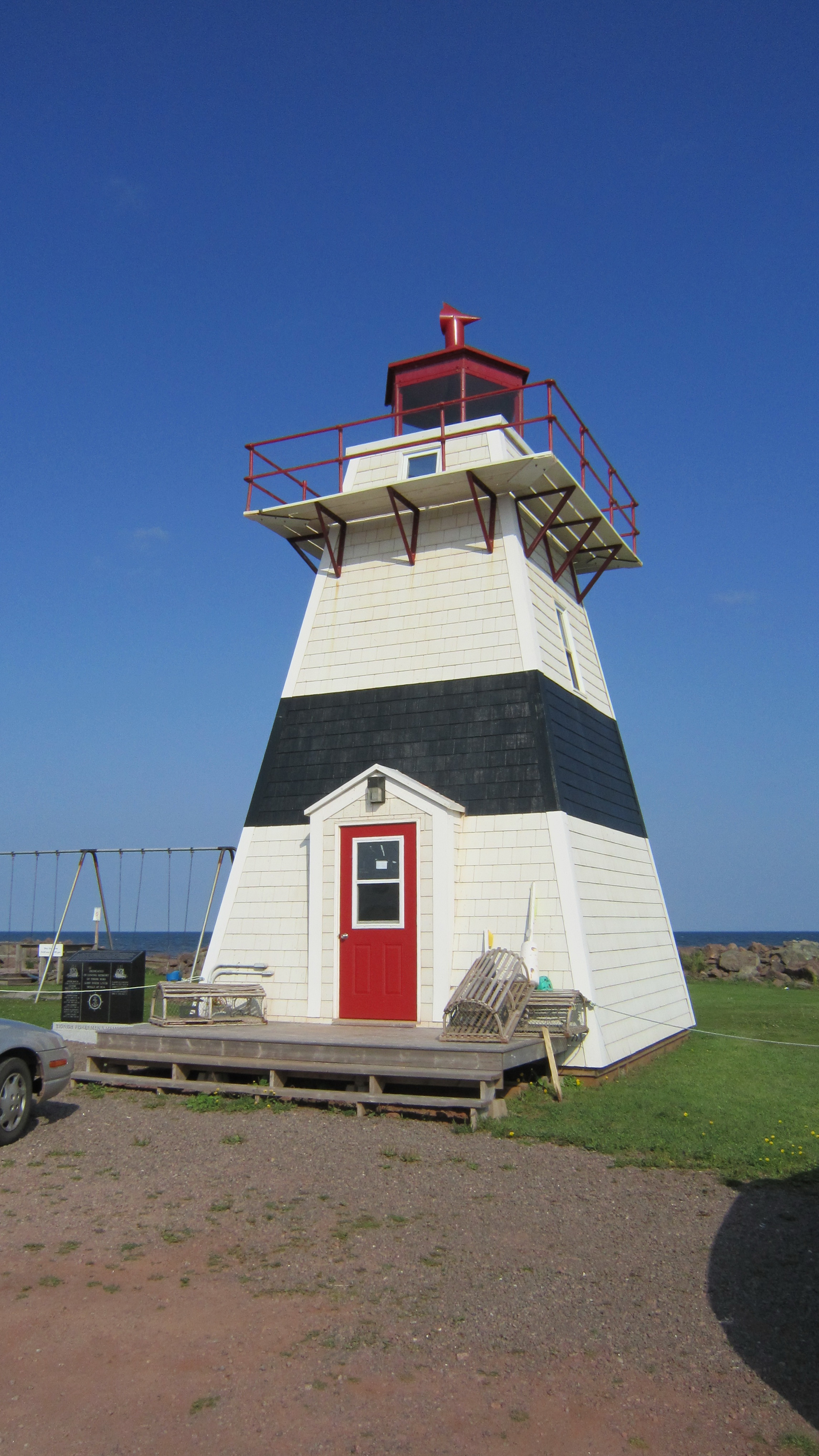 Big Tignish Lighthouse, Fisherman's Prov Park, Prince Edward Island, Canada